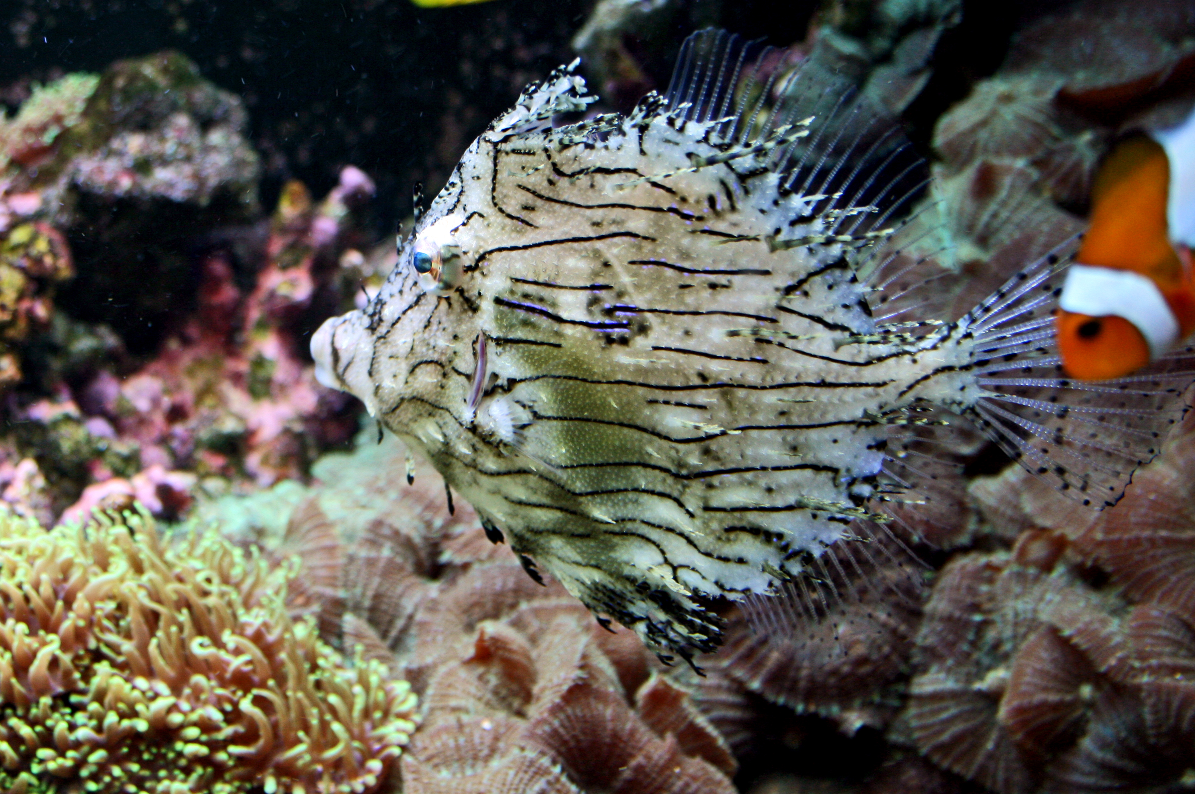 Fish Chaetodermis penicilligerus, Chaetodermis penicilligerus in Prague sea aquarium, Czech Republic